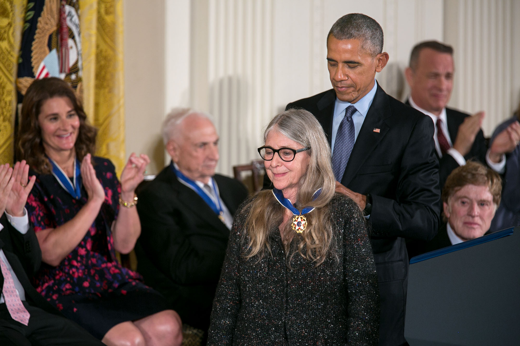 President Barack Obama presents the Presidential Medal of Freedom to Margaret H. Hamilton during a ceremony in the East Room of the White House, Nov. 22, 2016. (Official White House Photo by Lawrence Jackson)